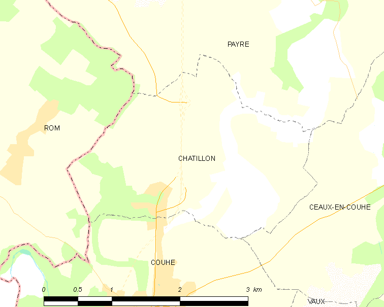 Map of French municipality Châtillon